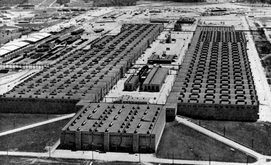 Aerial view of K-25 Gaseous Diffusion Plant at Oak Ridge, TN